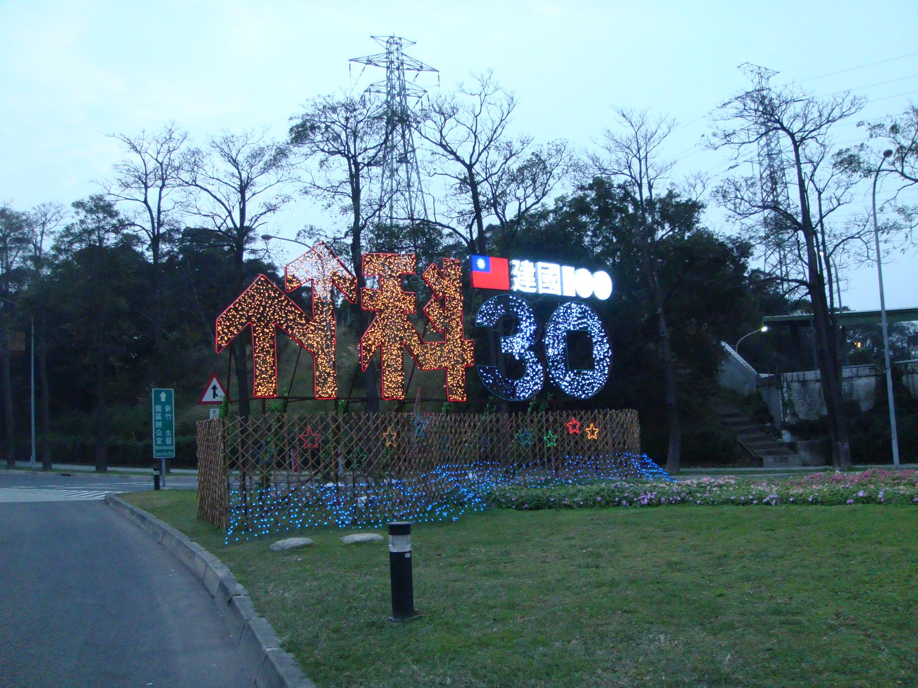 30th anniversary of Hsinchu Science and Industrial Park, and 100th anniversary of the Republic of China.